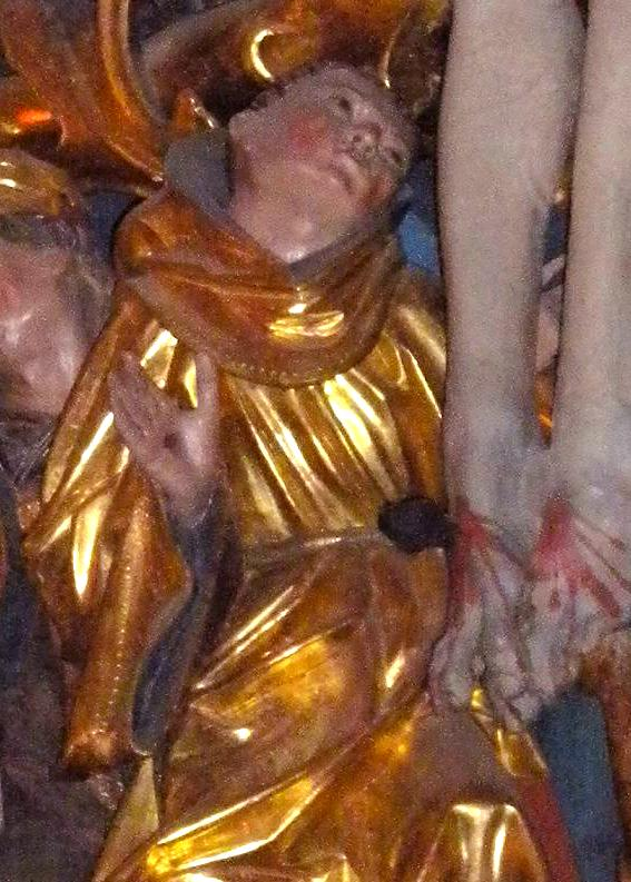 James of Dacia as depicted in altar sculptures at St. Canute’s Cathedral, as released by image creator Ristesson;Place: Odense, Denmark